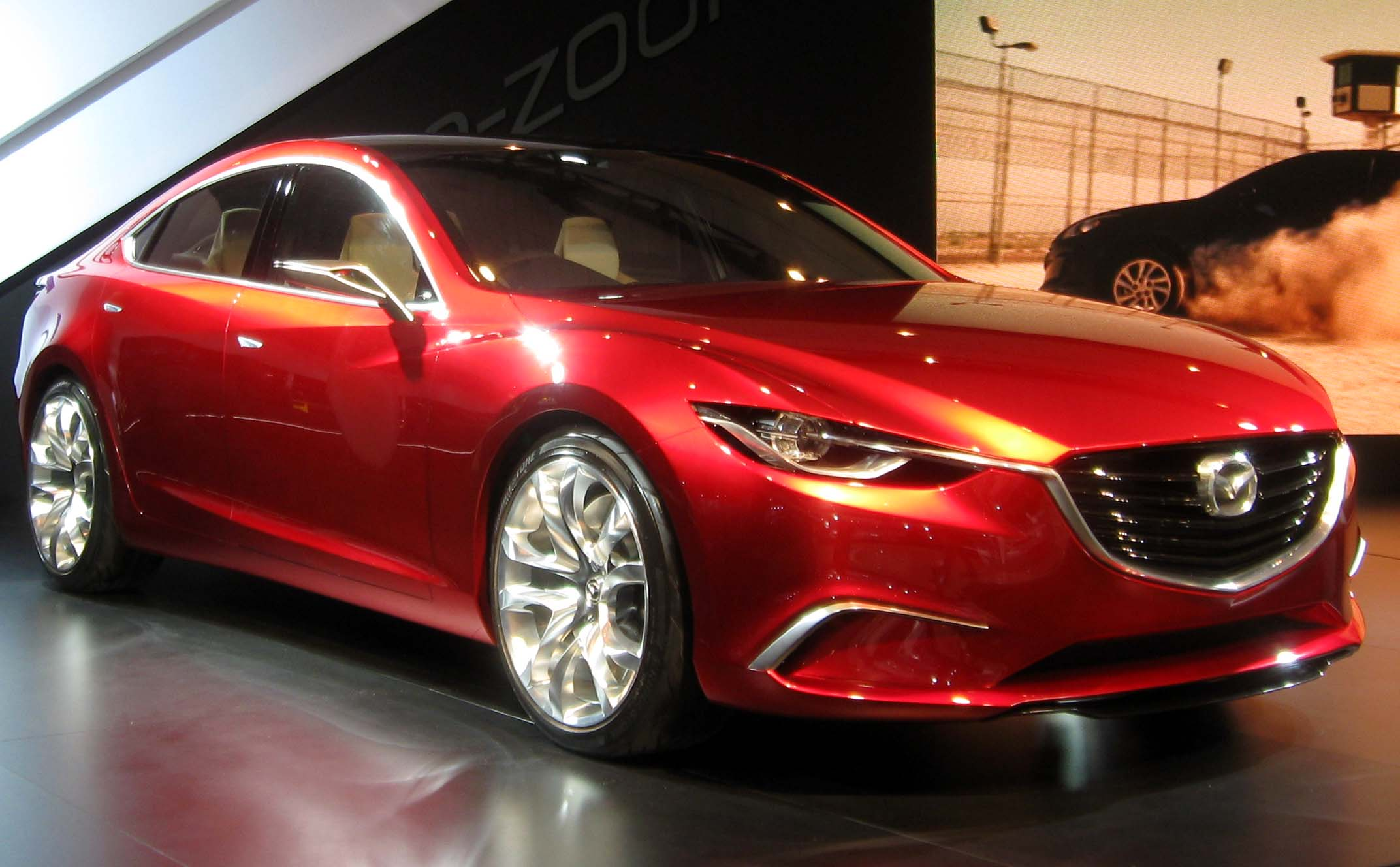 Mazda Takeri concept photographed at the 2012 New York International Auto Show.